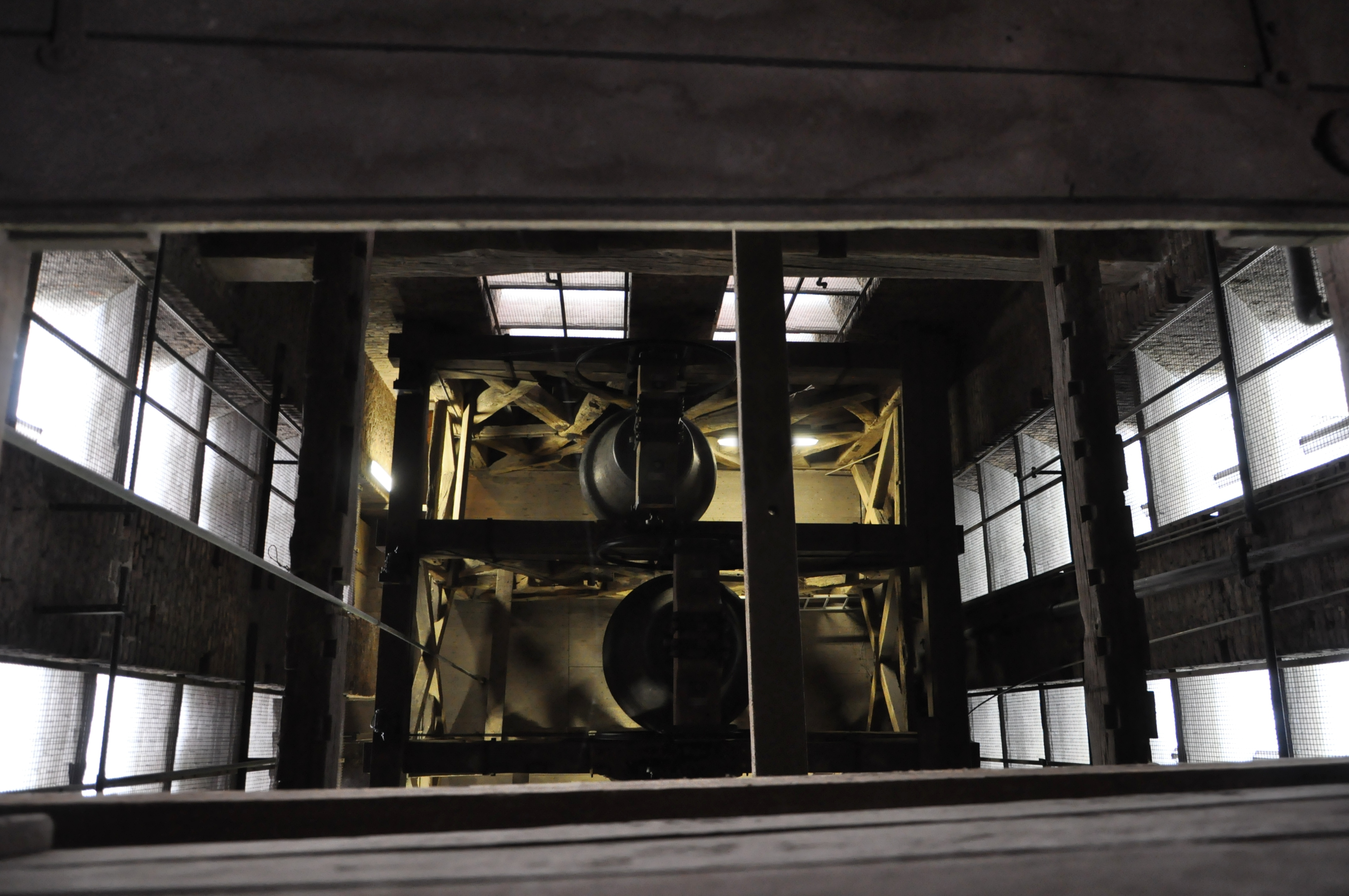 Bells at St. Martin's Church at Zaltbommel (the Netherlands)